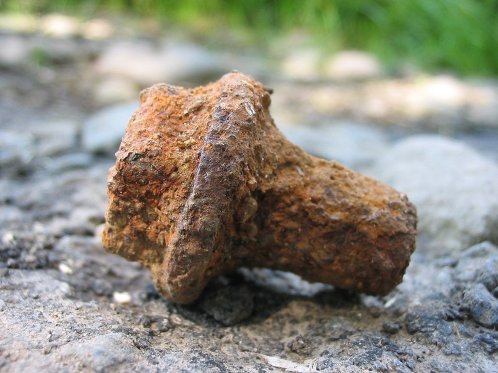 A rusty screw